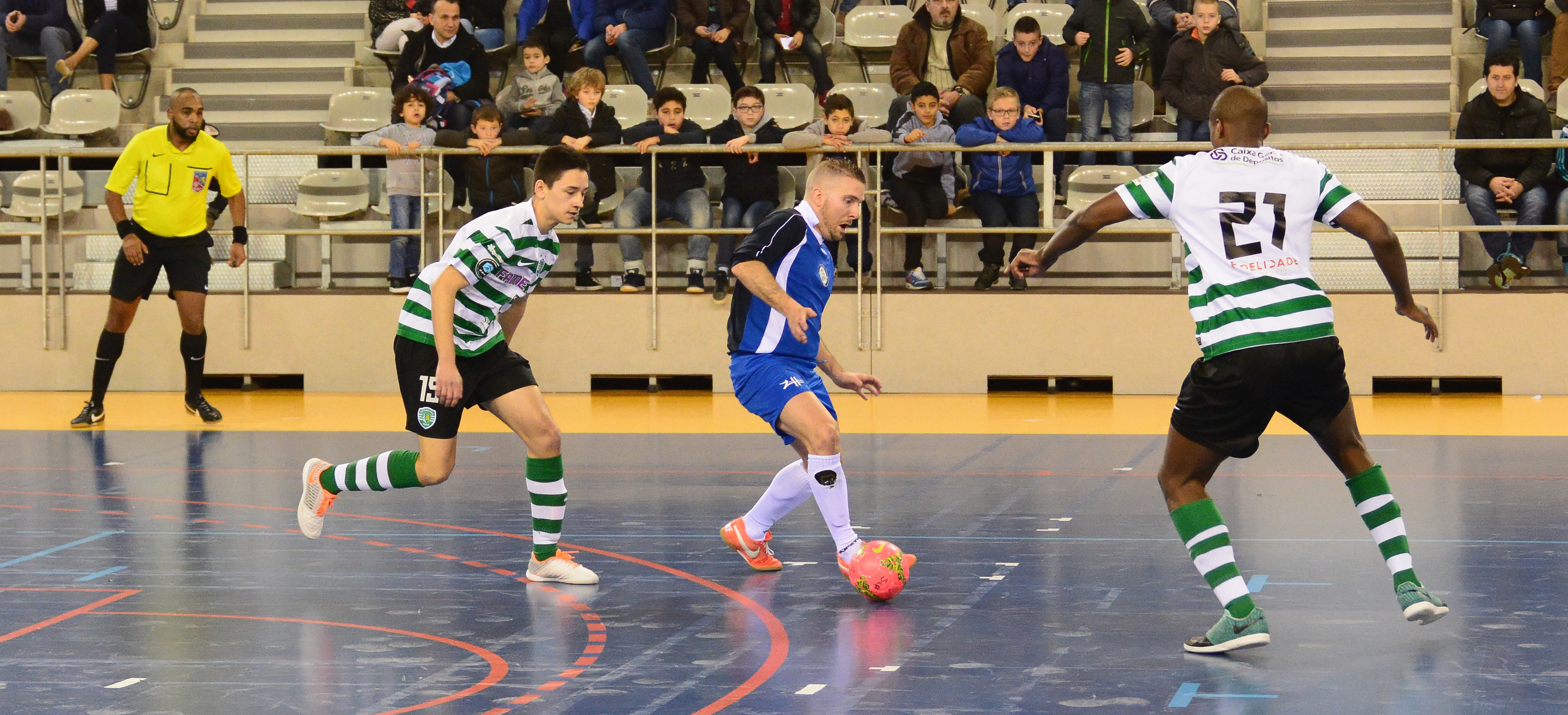 This image was taken with a Tamron SP AF 24-70mm F / 2.8 Di VC USD objective for Nikon digital single-lens reflex camera donated for photos by Wikimédia France. English | français | +/− Personality rights warningAlthough this work is freely licensed or in the public domain, the person(s) shown may have rights that legally restrict certain re-uses unless those depicted consent to such uses. In these cases, a model release or other evidence of consent could protect you from infringement claims.